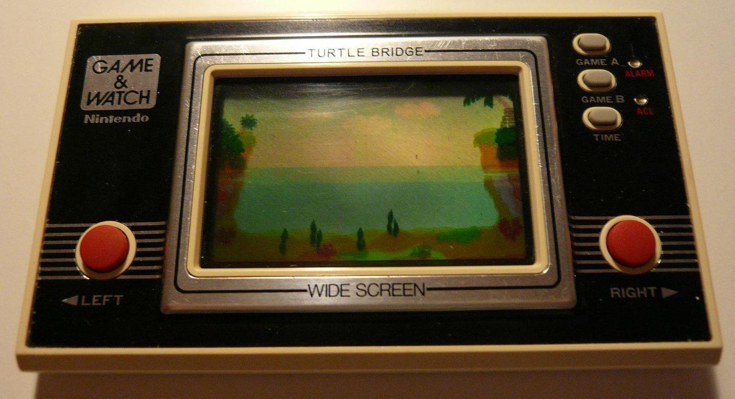 Turtle Bridge - Game&Watch - Nintendo